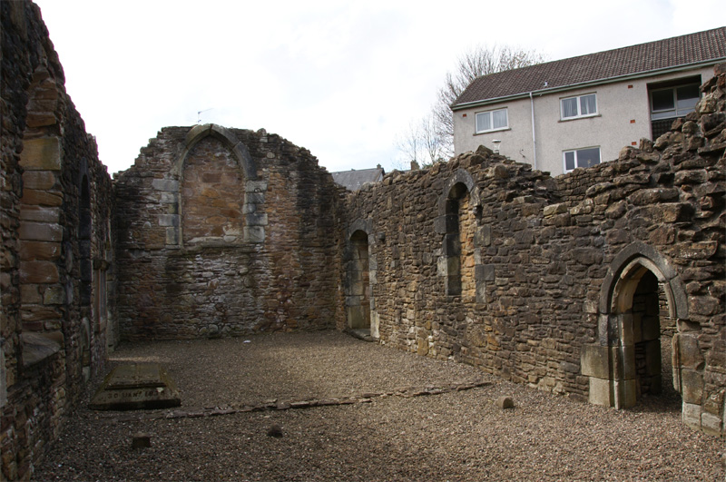 Maybole Collegiate Church, Maybole, South Ayrshire, Scotland - interior